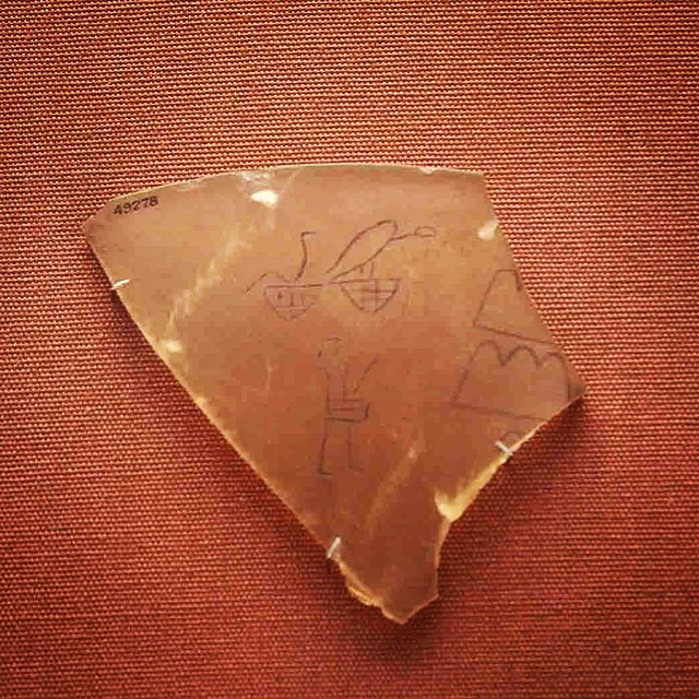 Inscribed crystal vase fragment with the names Semti and Irynetjer. First Dynasty, about 2900 BC. From the royal cemetery, Abydos. British Museum, Room 64, EA 49278